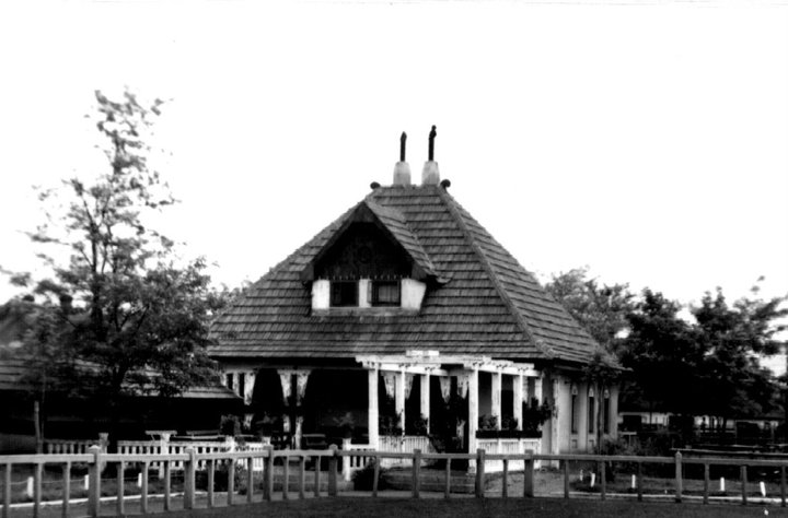 This building was in North-west cornel of stadium